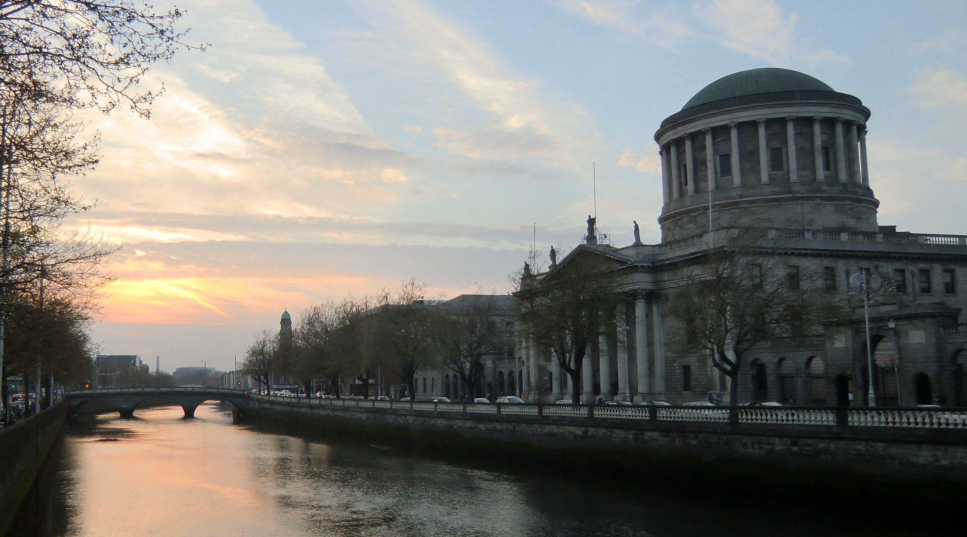 Four Courts and Father Mathew Bridge, Dublin, Ireland